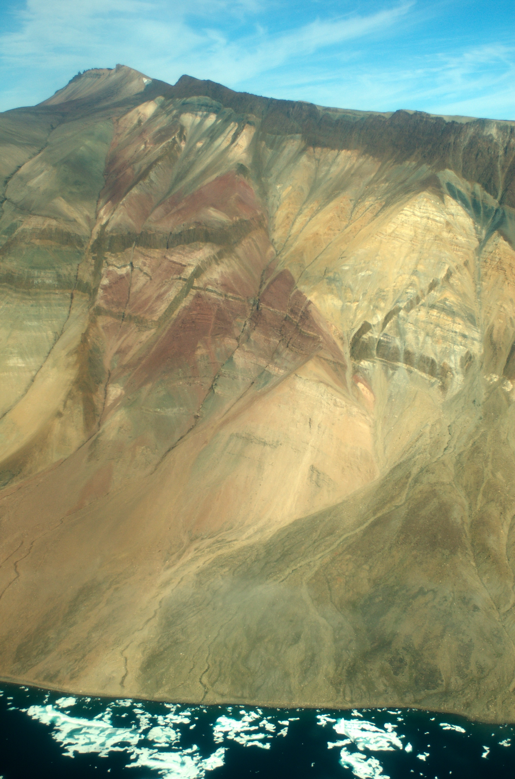 Fault on the southern side of Traill Island, East-Greenland. Red stone is of triassic age, right yellow sandstone is jurassic, and has been faulted down several hundred meters. Brown dikes of 50 million years age cut through the structure, but predate the fault.